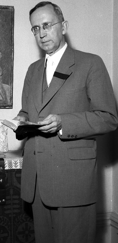 Swedish bishop (later archbishop) Gunnar Hultgren (1902-1991) in his home in Härnösand.